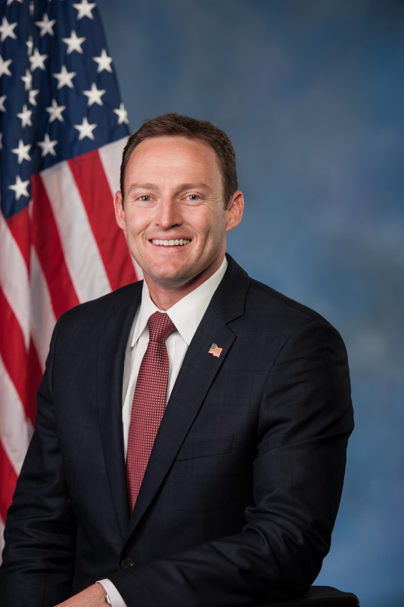 Official portrait of Congressman Patrick Murphy (D-FL).